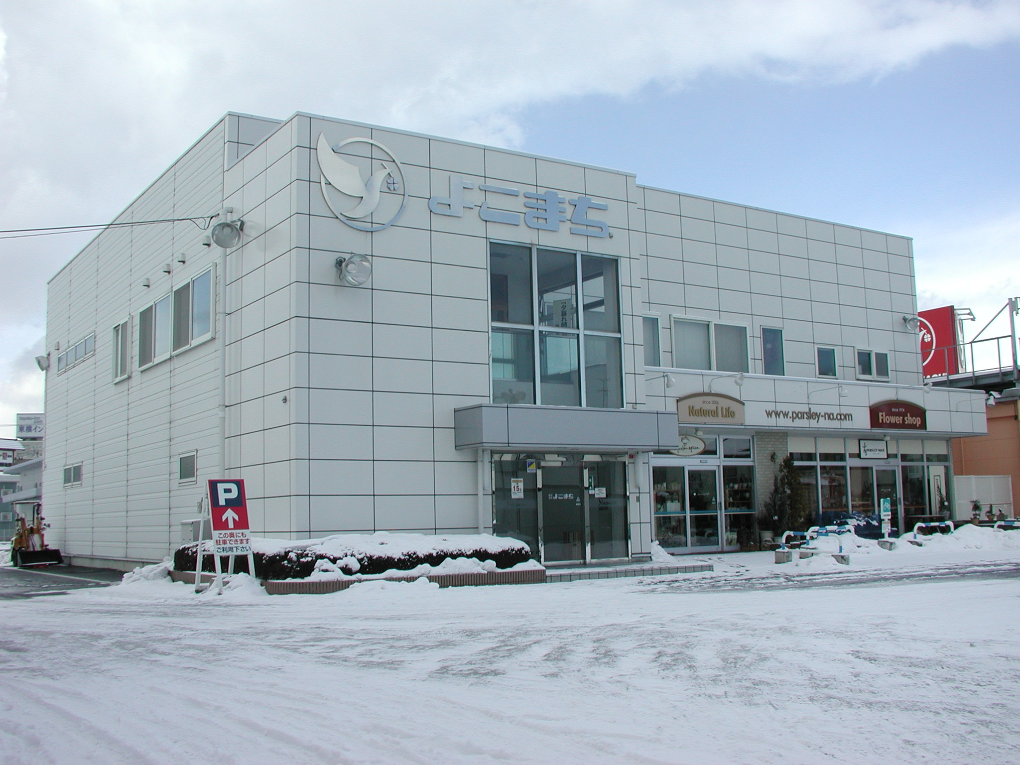 Yokomachi Store Head Office